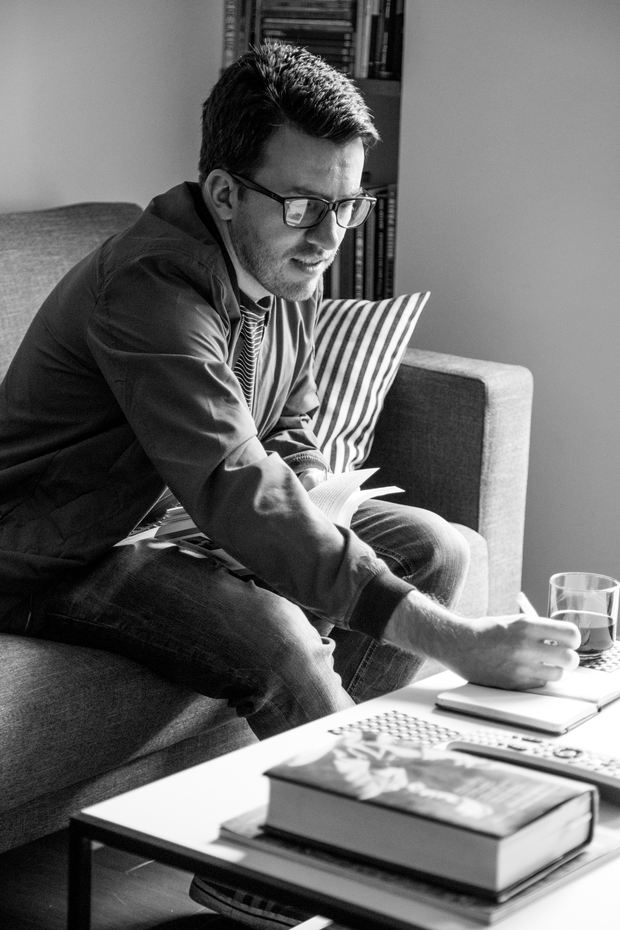 The writerJuan Fernando Hincapié